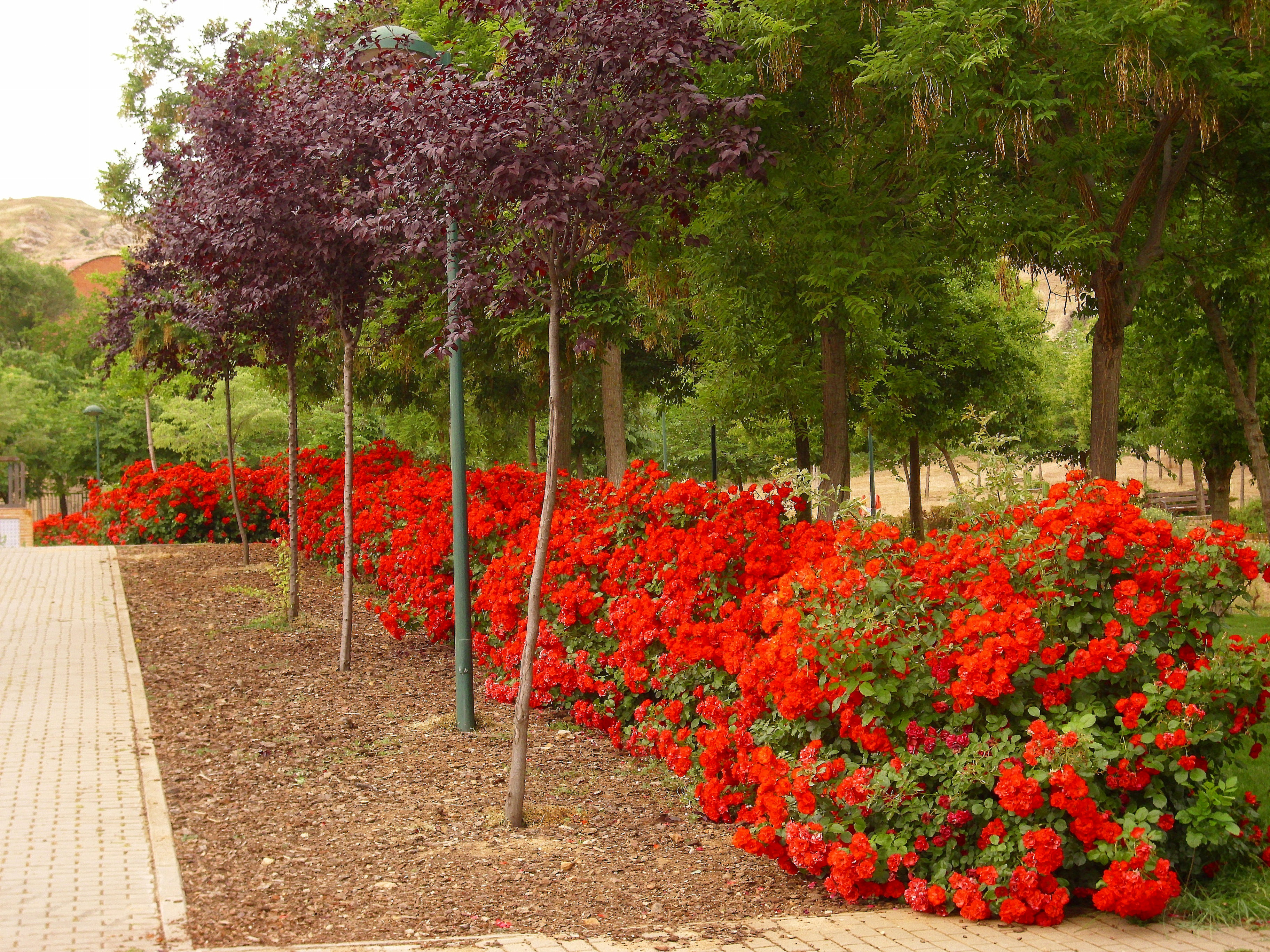 Rosa 'La Sevillana' M. L. Meilland, in Parque de la Rincona, Puertollano, Spain.